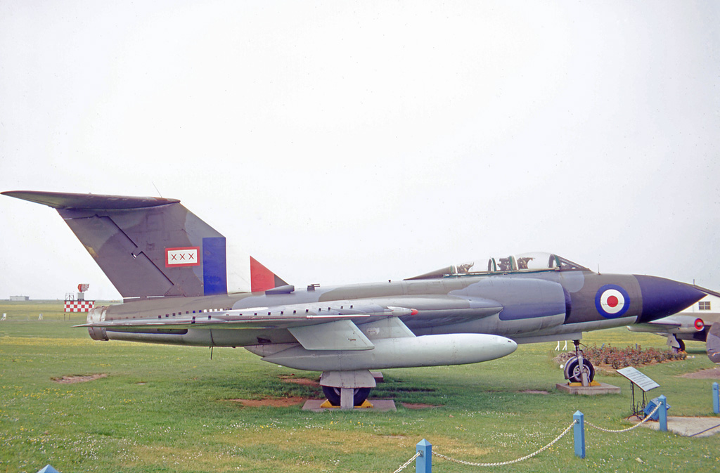 Gloster Javelin FAW.9 XH764 wearing the markings of No. 29 Squadron RAF at RAF Manston in 1971